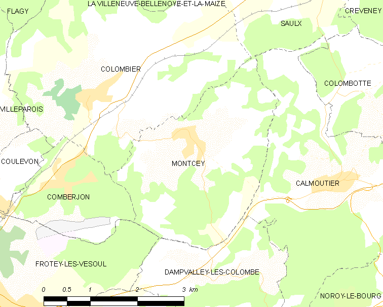 Map of French municipality